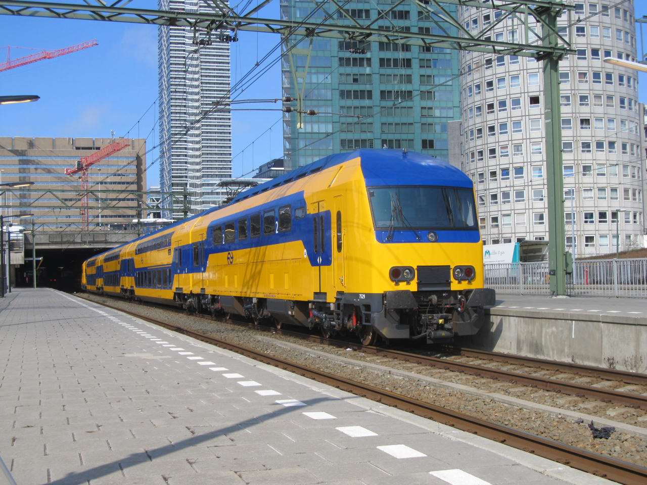 NID trains 7529 and 7538 leave The Hague Central for their journey to Amsterdam Central.